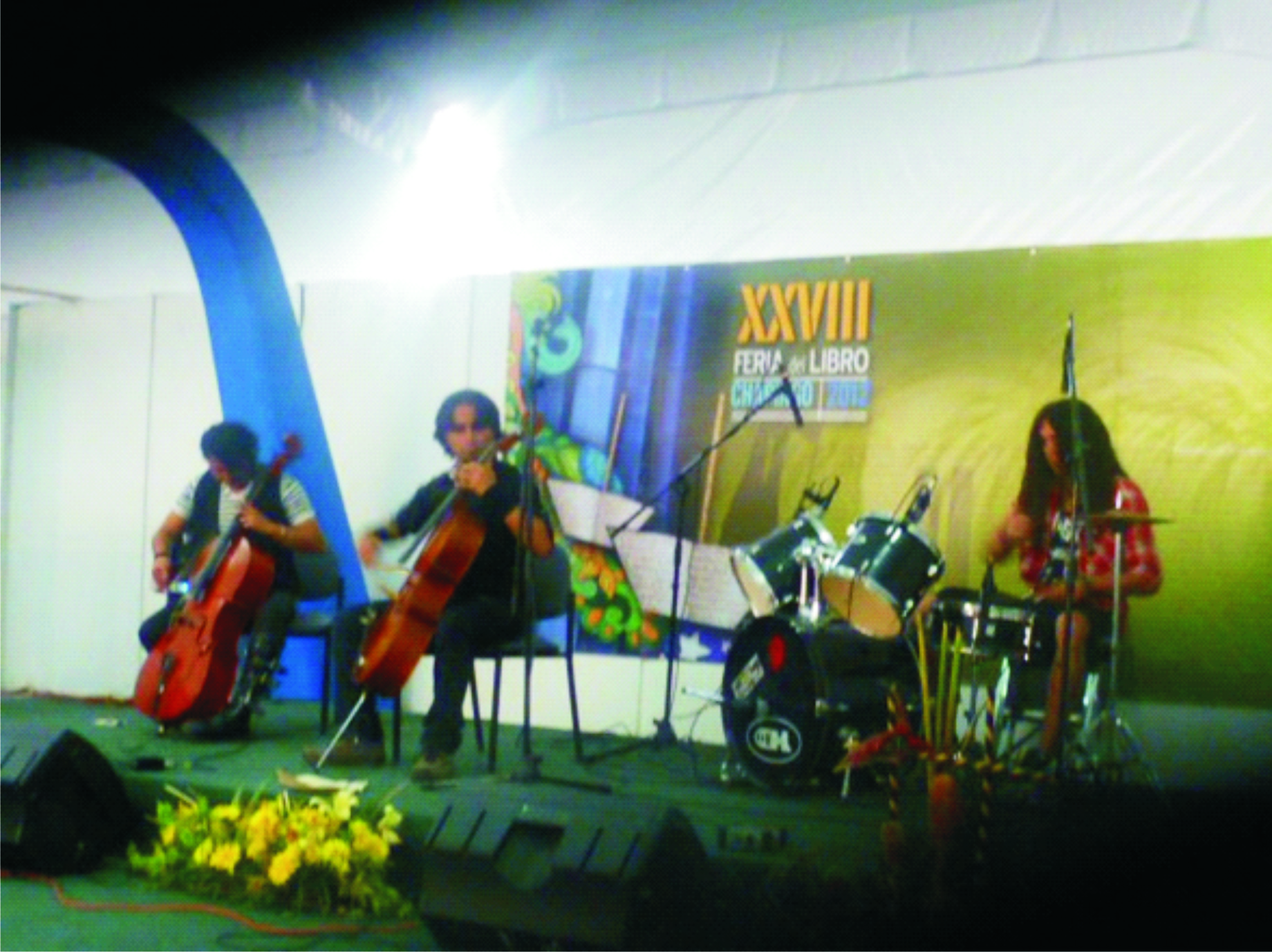 Concierto en la universidad de chapingo Feria del libro